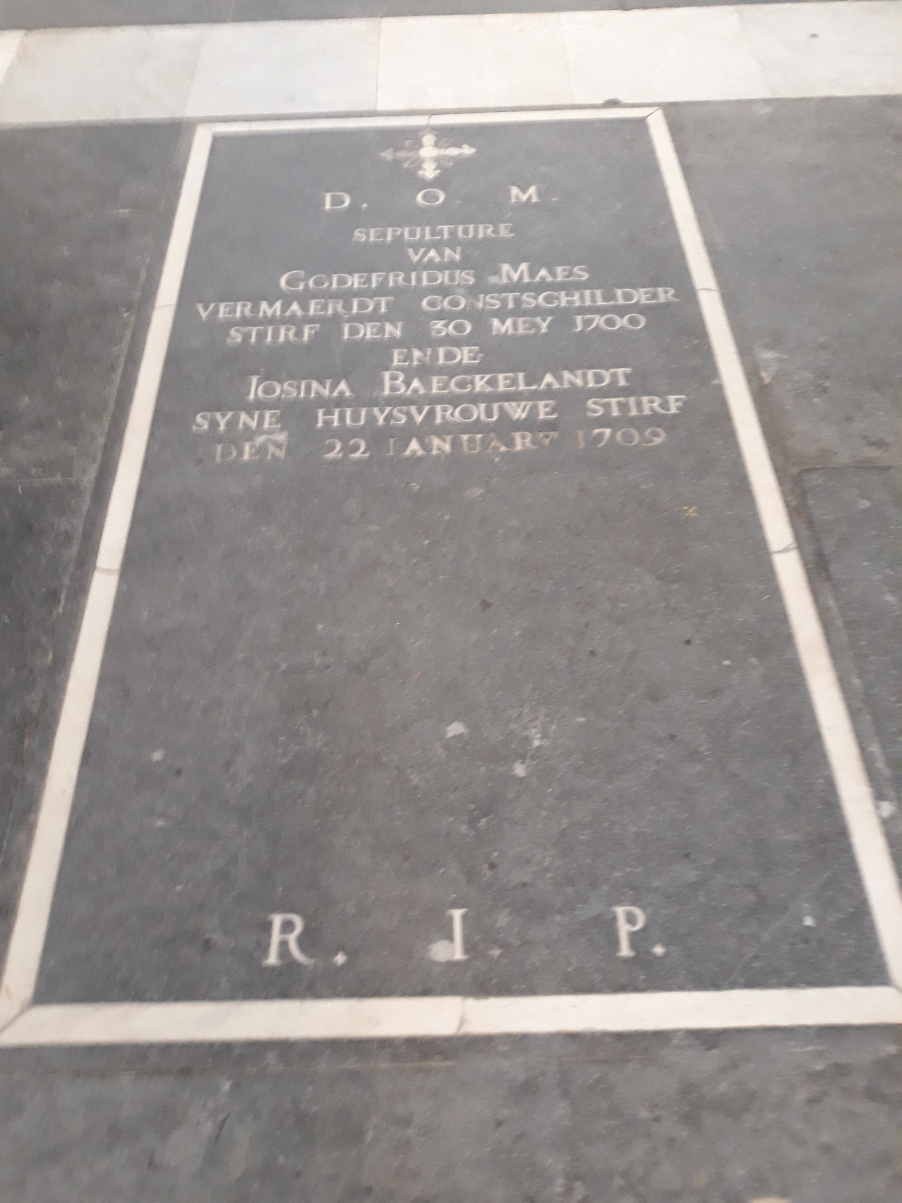 The tomb of the Flemish painter Godfried Maes and his wife Josina Baeckelandt in St. James Church Antwerp.